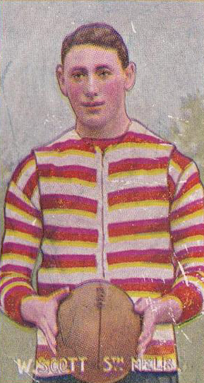 Cigarette card of Bill Scott from the Sniders & Abrahams 1906 series